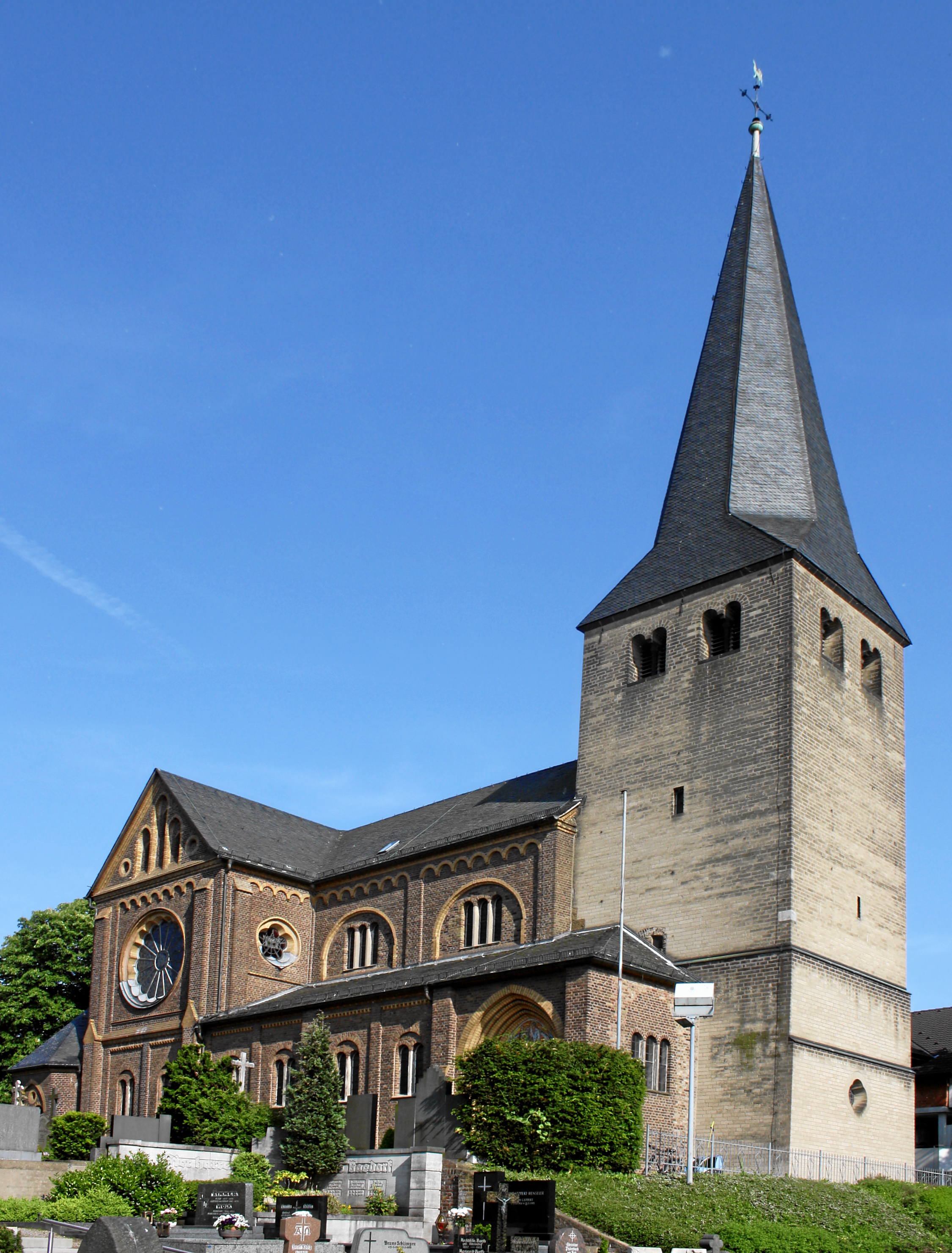 Niederkassel, Germany. Roman-catholic church Saint Matthew, exterior view from North-West.